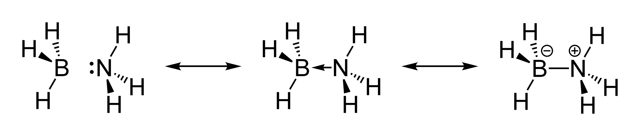 Some resonance structures of the ammonia borane molecule, H3BNH3.